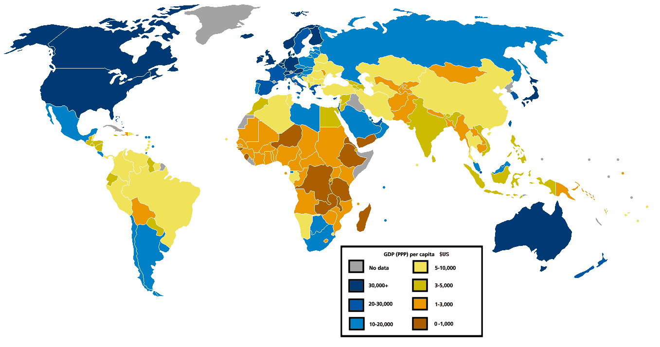 GDP per capita, purchasing power parity.